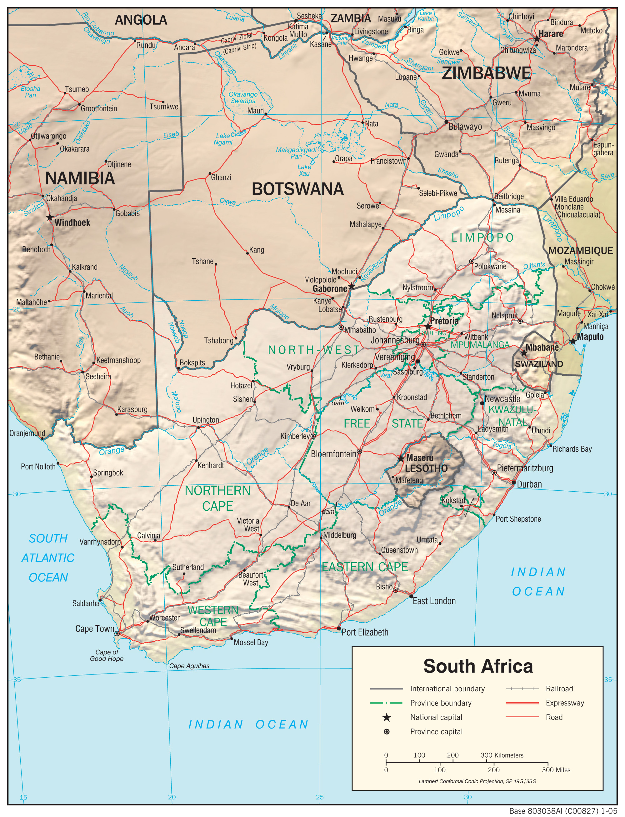 Topographic map of South Africa (shaded relief), 2005.